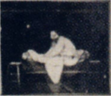 Frame from Georges Méliès's film Une nuit terrible (1896), as reproduced in a photocollage held by the Cinémathèque Française. This version of the film features simpler scenery and a different camera placement than the version commonly identified as Une nuit terrible and available on various DVD collections, leading the Méliès family to hypothesize in 2013 that the latter version is in fact a later Méliès film, Un bon lit, previously presumed lost.